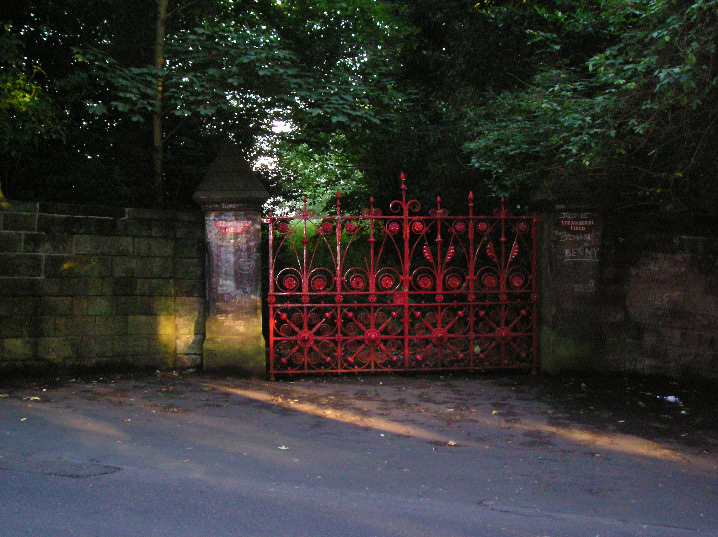 Strawberry Fields Forever, Beaconsfield Road, Woolton, Liverpool 25